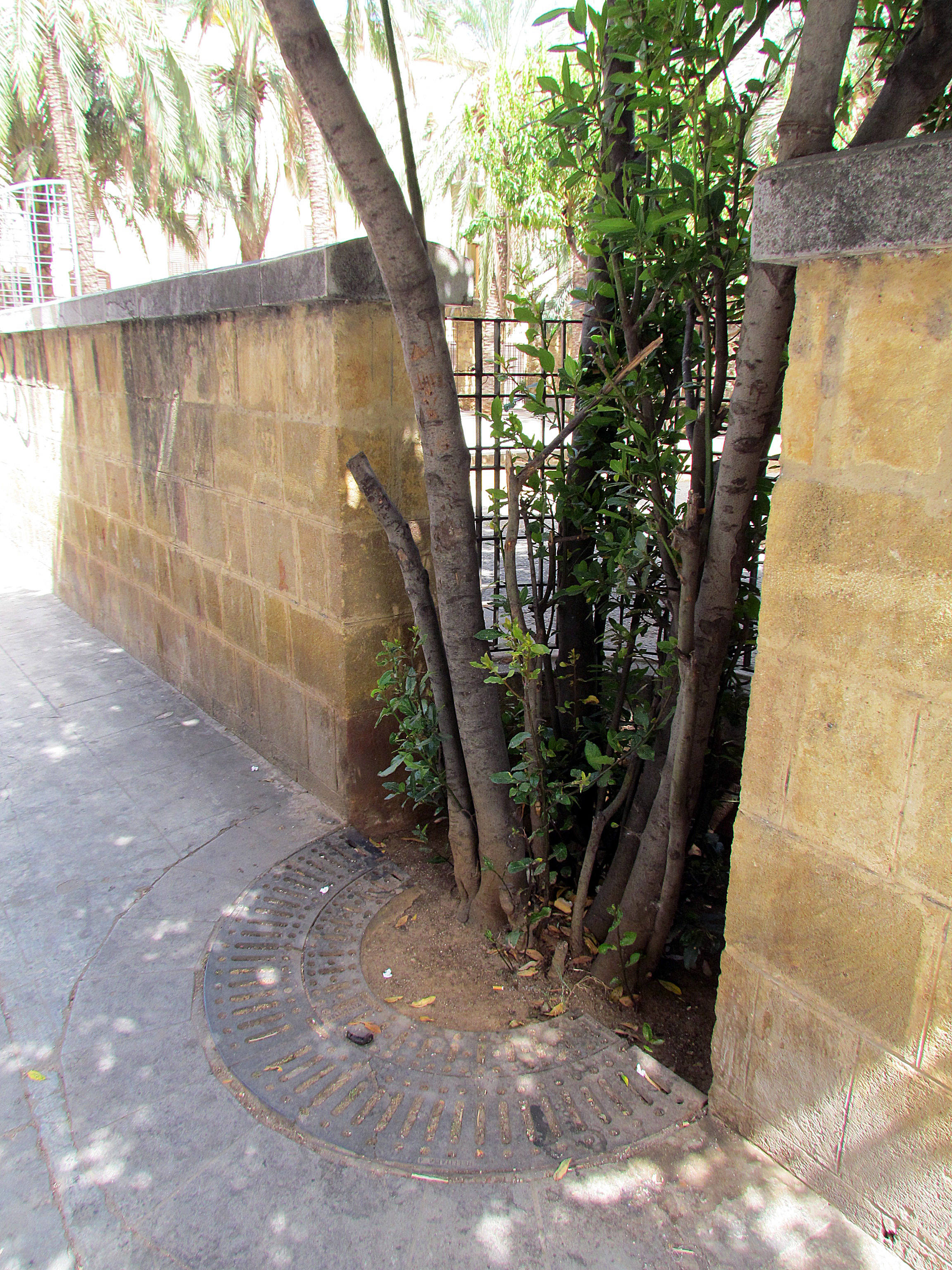 Garden of the Righteous Palermo (Laurus nobilis)